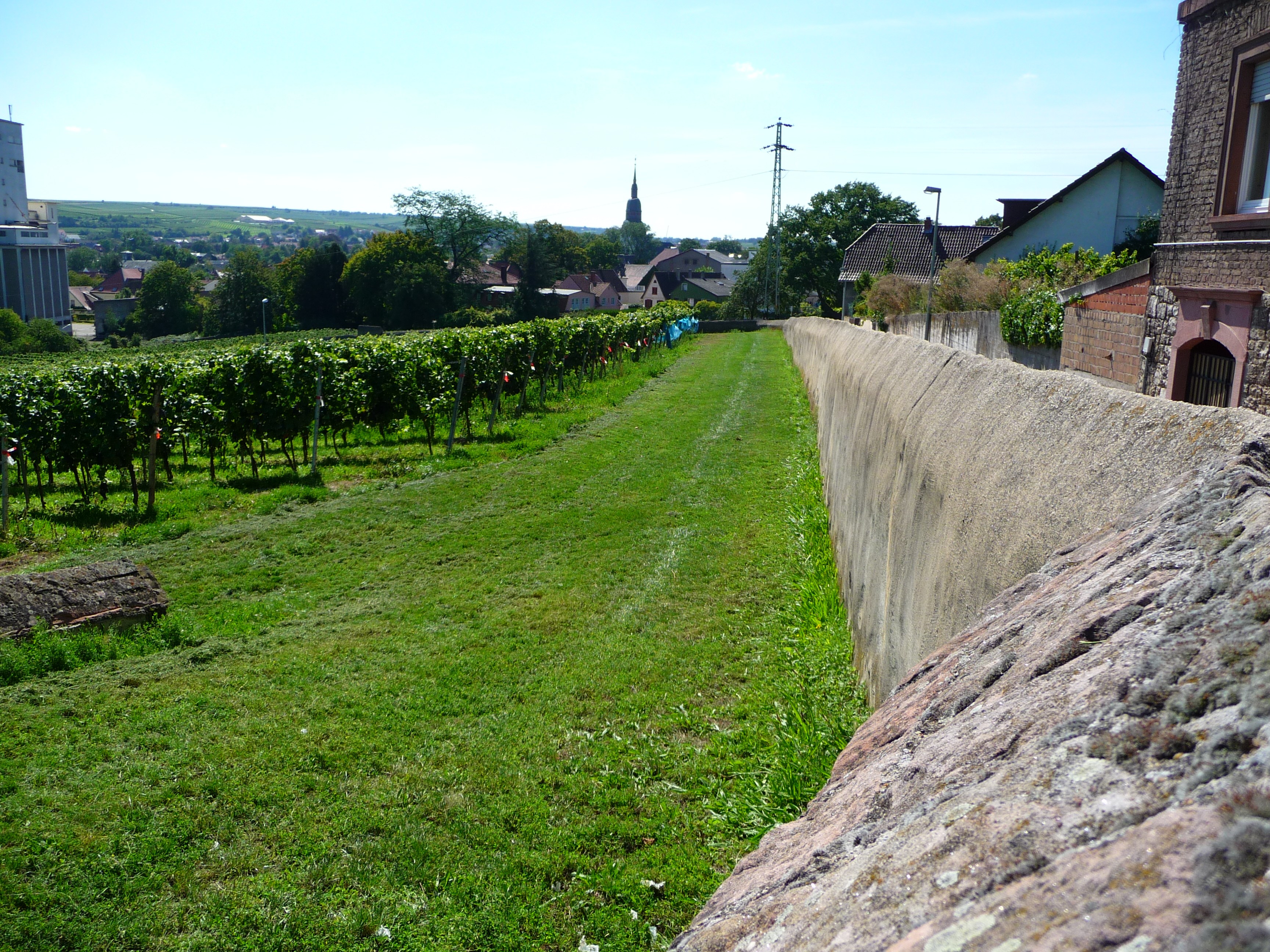 View over the vineyard Glöck to Nierstein, Rhineland-Palatinate, Germany. In the background the tower of the protestant Martin church. To the left the closed malthouse.